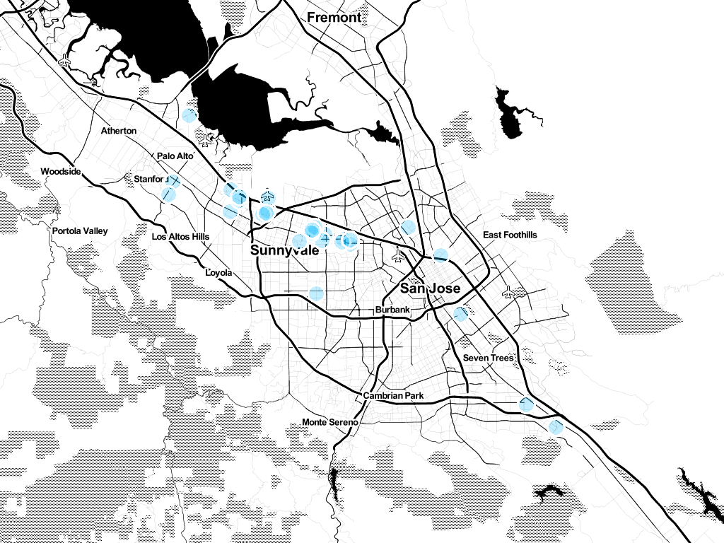 Location of superfund sites at the Silicon Valley, California, USA, based on Open Street Map data This map may be incomplete, and may contain errors. Don't rely solely on it for navigation.